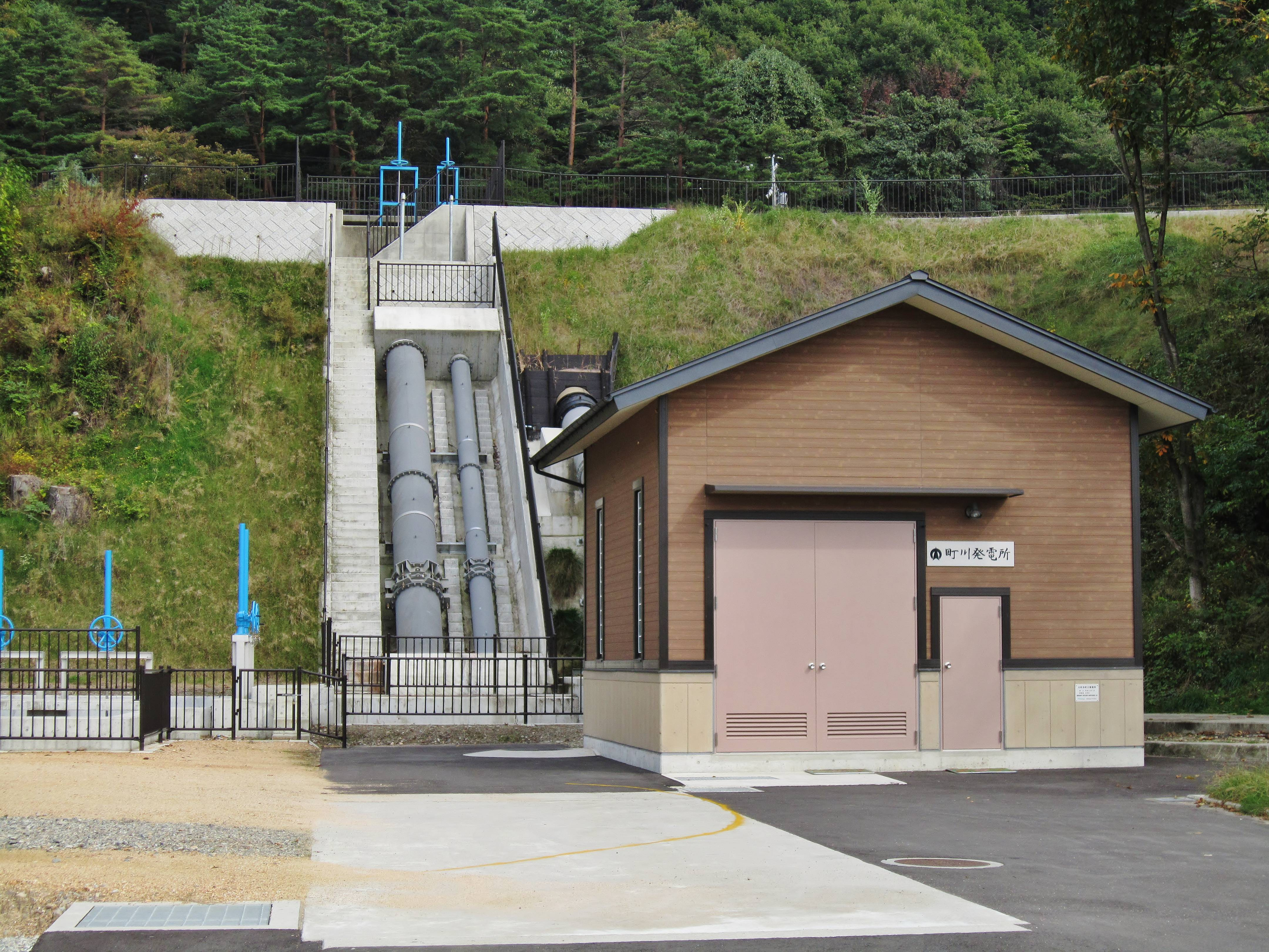 Machikawa power station.